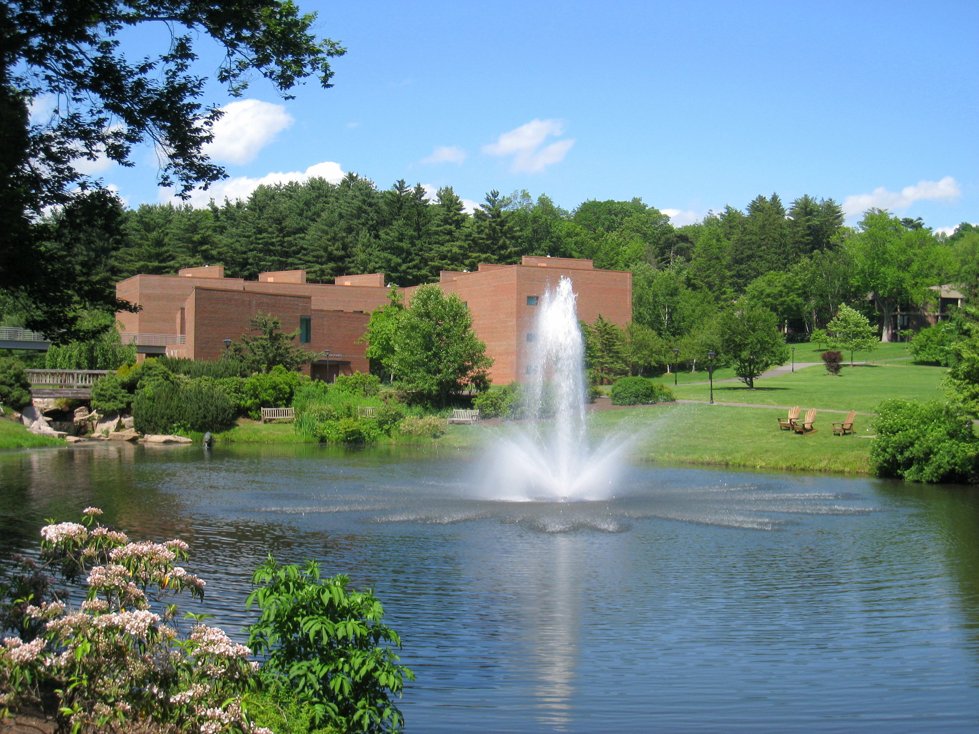 Carl C. Icahn Center for Science - Choate Rosemary Hall, Wallingford, Connecticut, USA. Architect I. M. Pei, 1989.